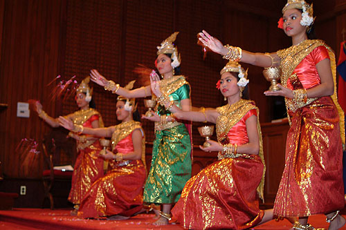 Traditional Khmer dance.